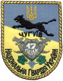 Narukavnyj sign 17rgt on National guards of Ukraine, Chuguev.